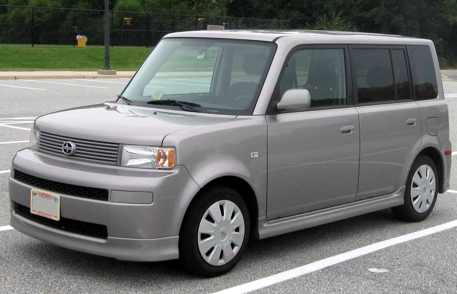 2006 Scion xB photographed in USA.